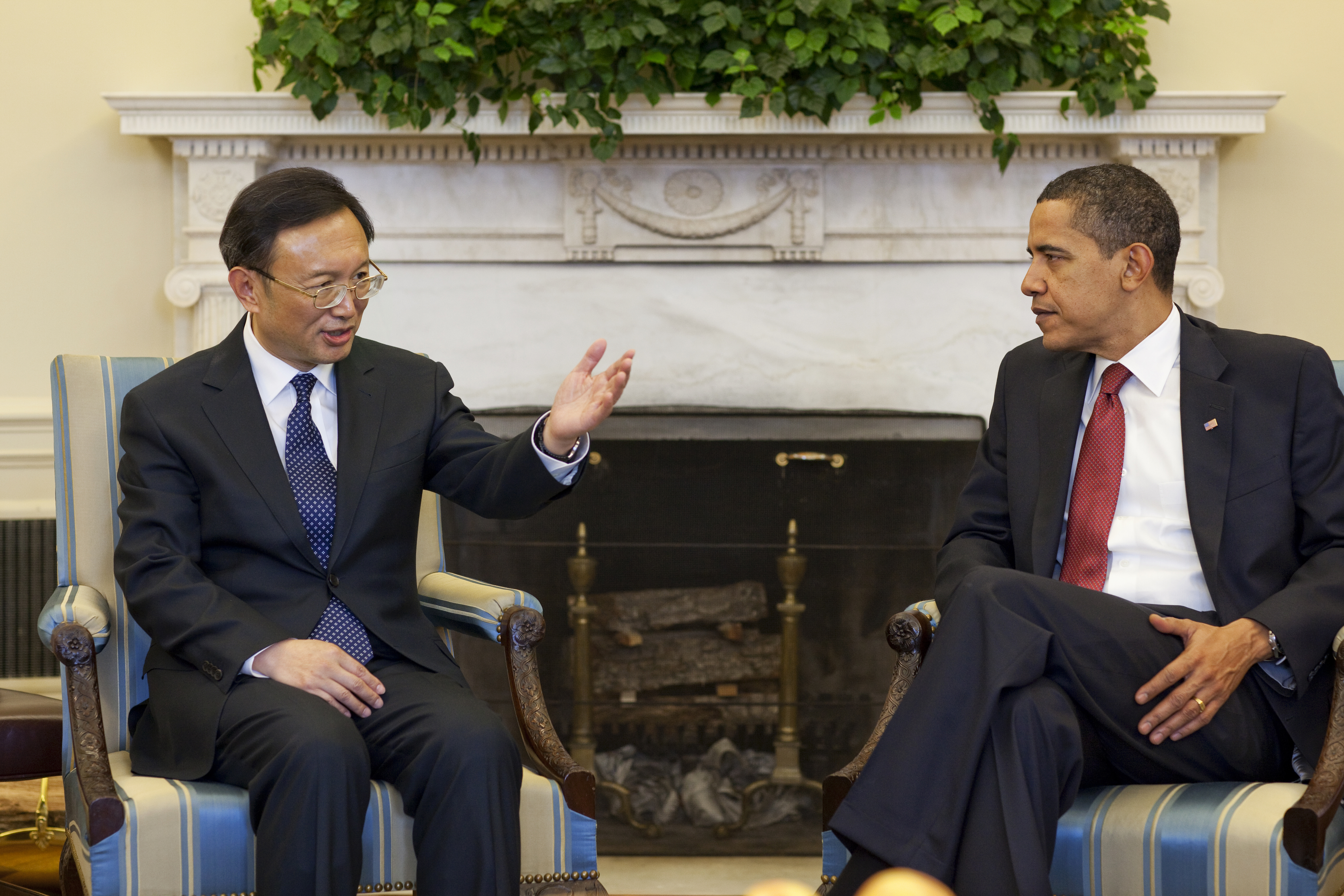 President Barack Obama welcomes China's Foreign Minister Yang Jiechi to the Oval Office.